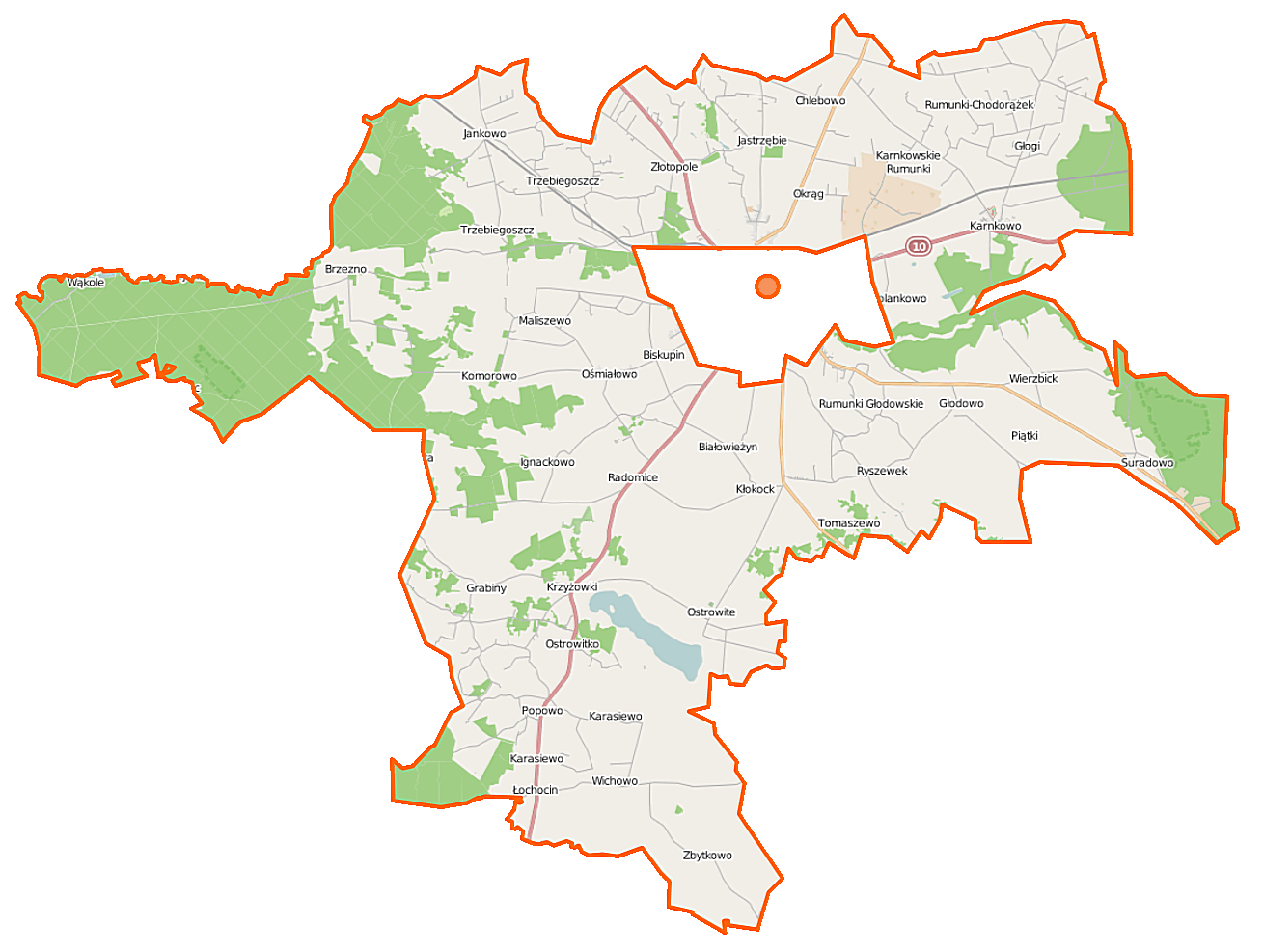 Map of Gmina Lipno, Poland This map of Lipno (gmina wiejska w województwie kujawsko-pomorskim) was created from OpenStreetMap project data, collected by the community. This map may be incomplete, and may contain errors. Don't rely solely on it for navigation. Border coordinates52.902118.9380←↕→19.335952.7207